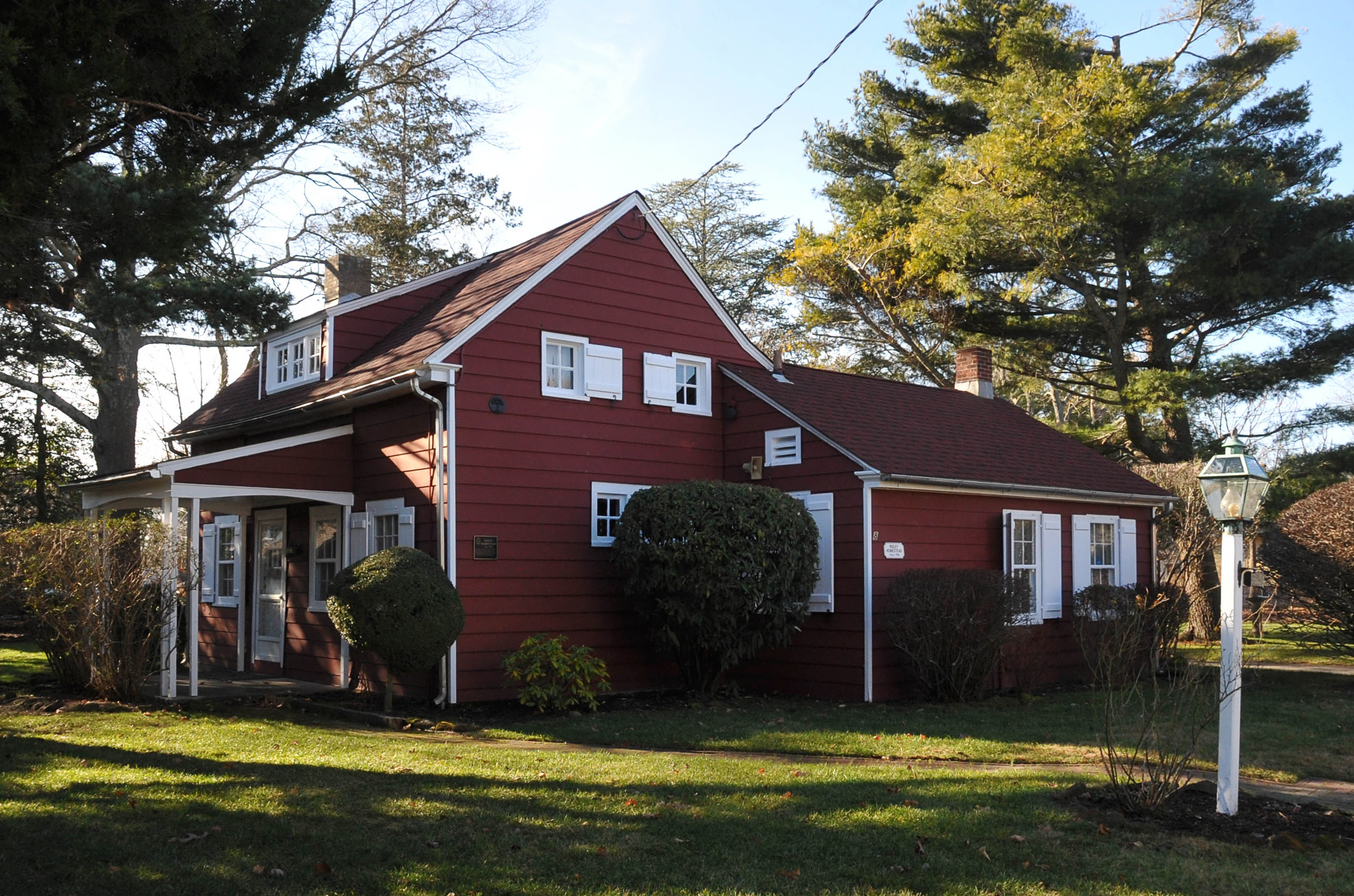 CIRCA 1790; BUILT BY EITHER JEREMIAH OR EDWARD AS A TWO ROOM FARMHOUSE. ADDITIONS WERE MADE IN THE 1930’S AND 1940’S